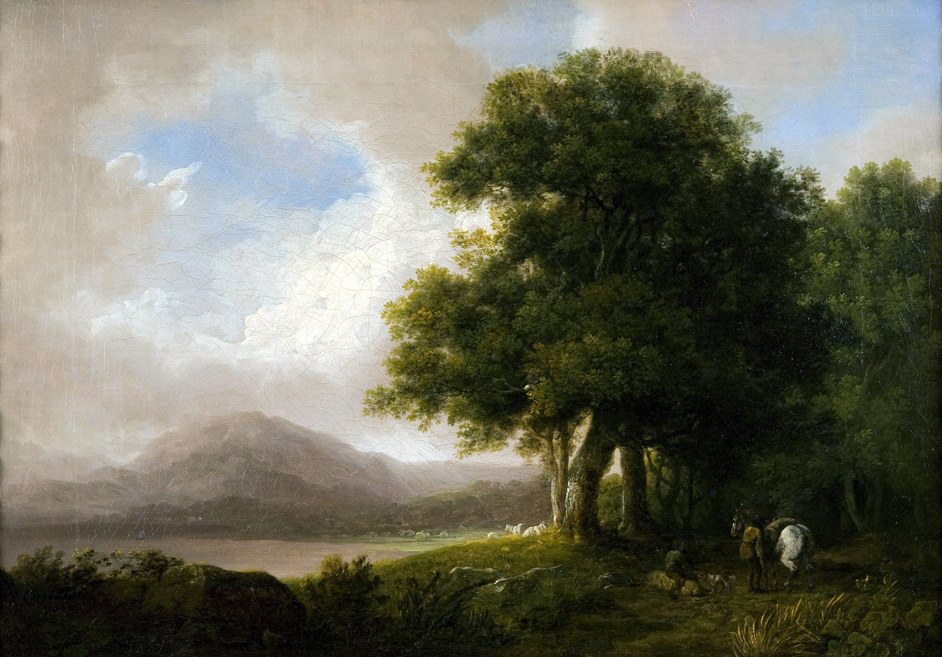 Info from source: Richard CORBOULD (1757 - 1831), Skiddaw from derwentwater, oil on canvas, 35.5 x 50.5 cm